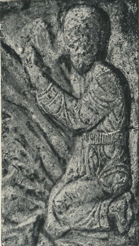 A 10th-century relief sculpture depicting Grigol, the builder of the Oshki church. A photo from Ekvtime Taqaishvili's account of his 1917 expedition to Tao-Klarjeti region. According to Taqaishvili, the photos from the book were taken "by some of the members of our expedition". He mentions the painter and amateur photograph Dimitri Shevardnadze among those involved.